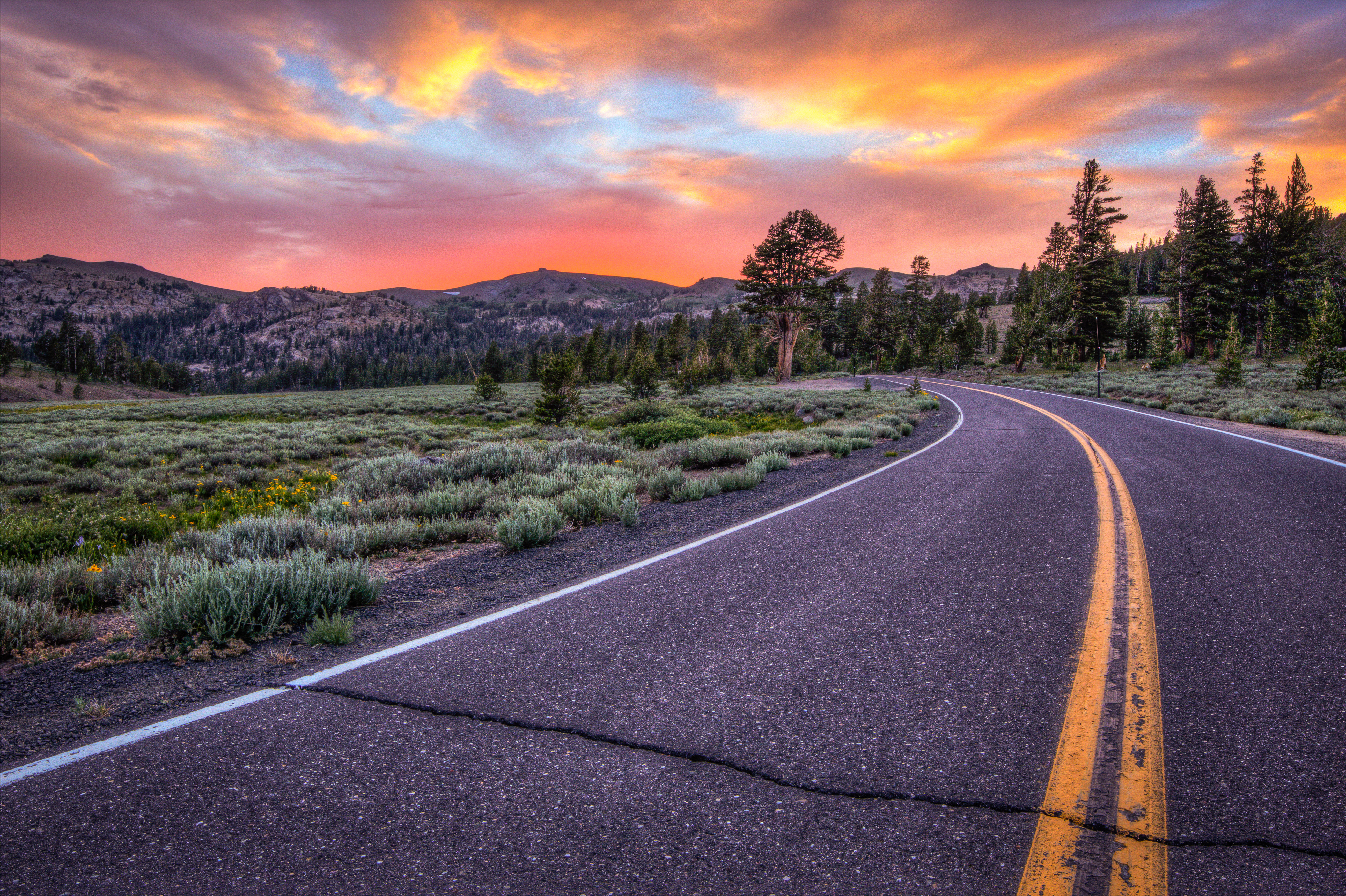 Sunset over Sonora Pass, California